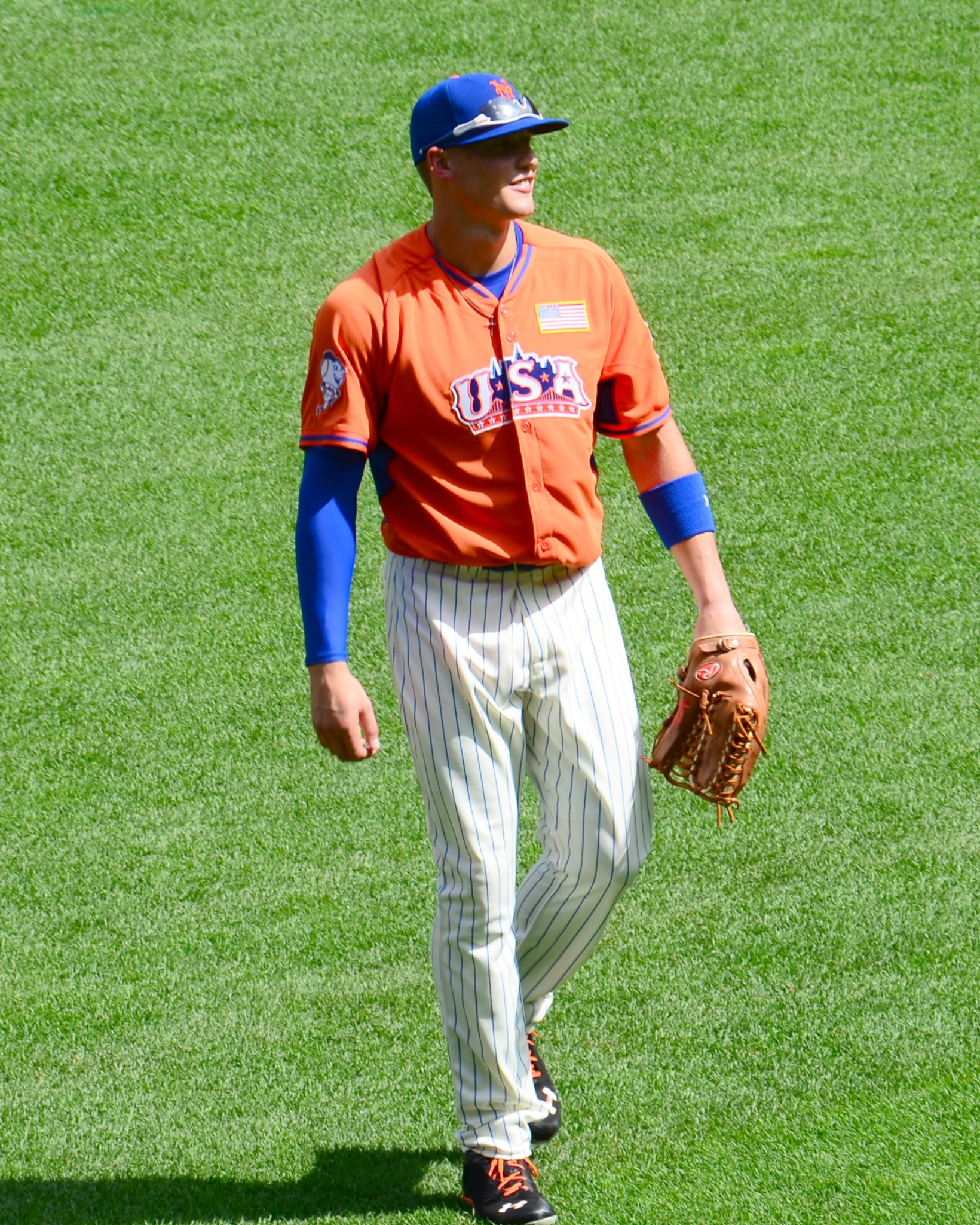 Brandon Nimmo in 2013.